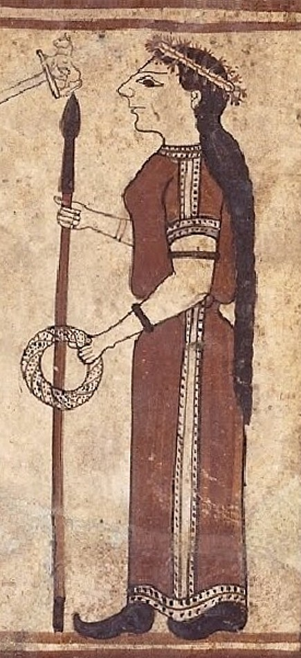 Etruscan Boccanera Plaque from Cerveteri with Menrva